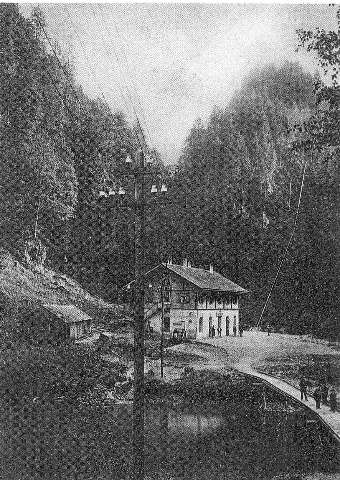 The hydroelectric power plant Dornbirn Ebensand in 1899.